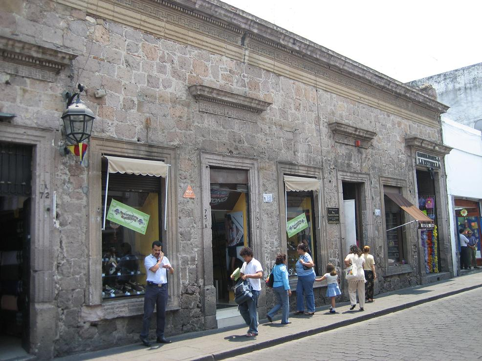 Casa natal de Iturbide / Iturbide's house of birth